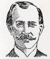 James Knox Polk Hall, US Representative from Pennsylvania